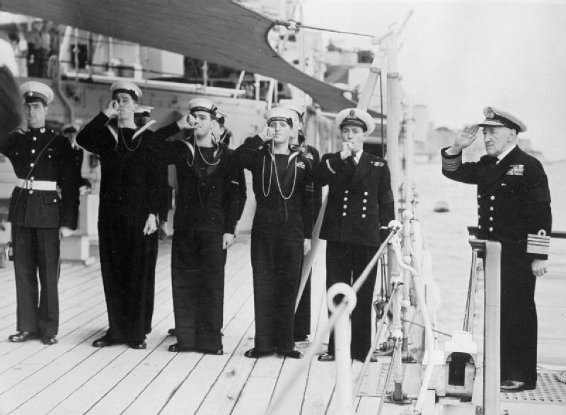 IWM caption : THE FIRST SEA LORD VISITS HOME AND MEDITERRANEAN FLEETS AT MALTA DURING COMBINED FLEET EXERCISES (GRAND SLAM?), MARCH 1952. The First Sea Lord, Admiral Sir Rhoderick McGrigor, being piped on board HMS LIVERPOOL, Flagship of the Commander in Chief Mediterranean, in Grand Harbour, Valletta, Malta.